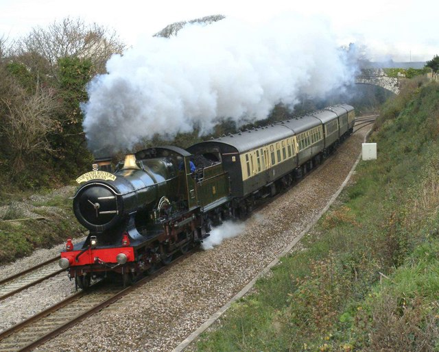 City of Truro returns to Truro, near to Grampound Road, Cornwall, Great Britain. A VIP special from Plymouth to Truro was run to mark the completion of the dualling of the railway track from Probus to Burngullow. Of course prior to the 1980s it had been dual track anyway but then the bean counting accountants who ran the railway decided they could save a few quid by making the railway single line between these points. 20 plus years later it cost millions to put the track back again ! Here 3440 is seen from the fence top steaming under the bridge at Grampound Road.